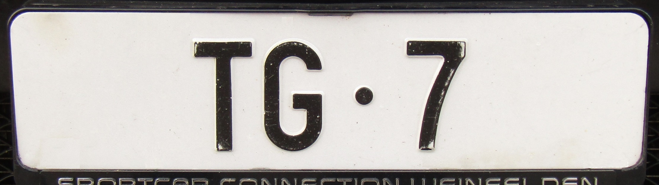 Low numbered swiss license plate from Thurgau